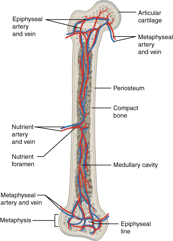 Illustration from Anatomy & Physiology, Connexions Web site. Jun 19, 2013.